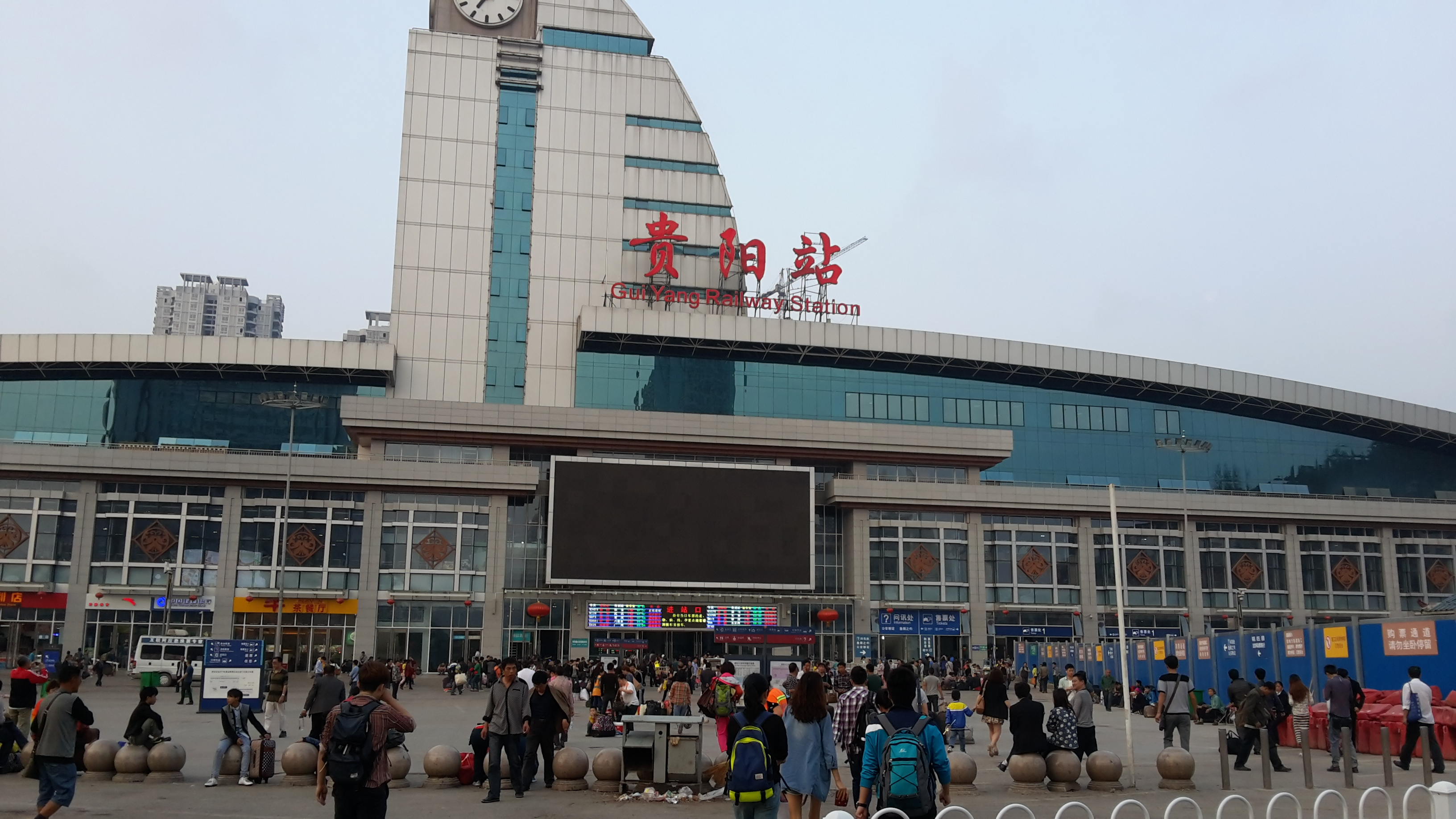 Guiyang main railway station